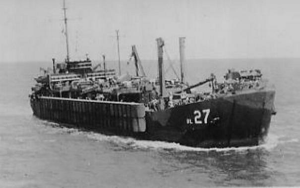 USS Tantalus (ARL-27) underway, date and place unknown. Note the pontoon causeway secured to her starboard side. US Navy photo.